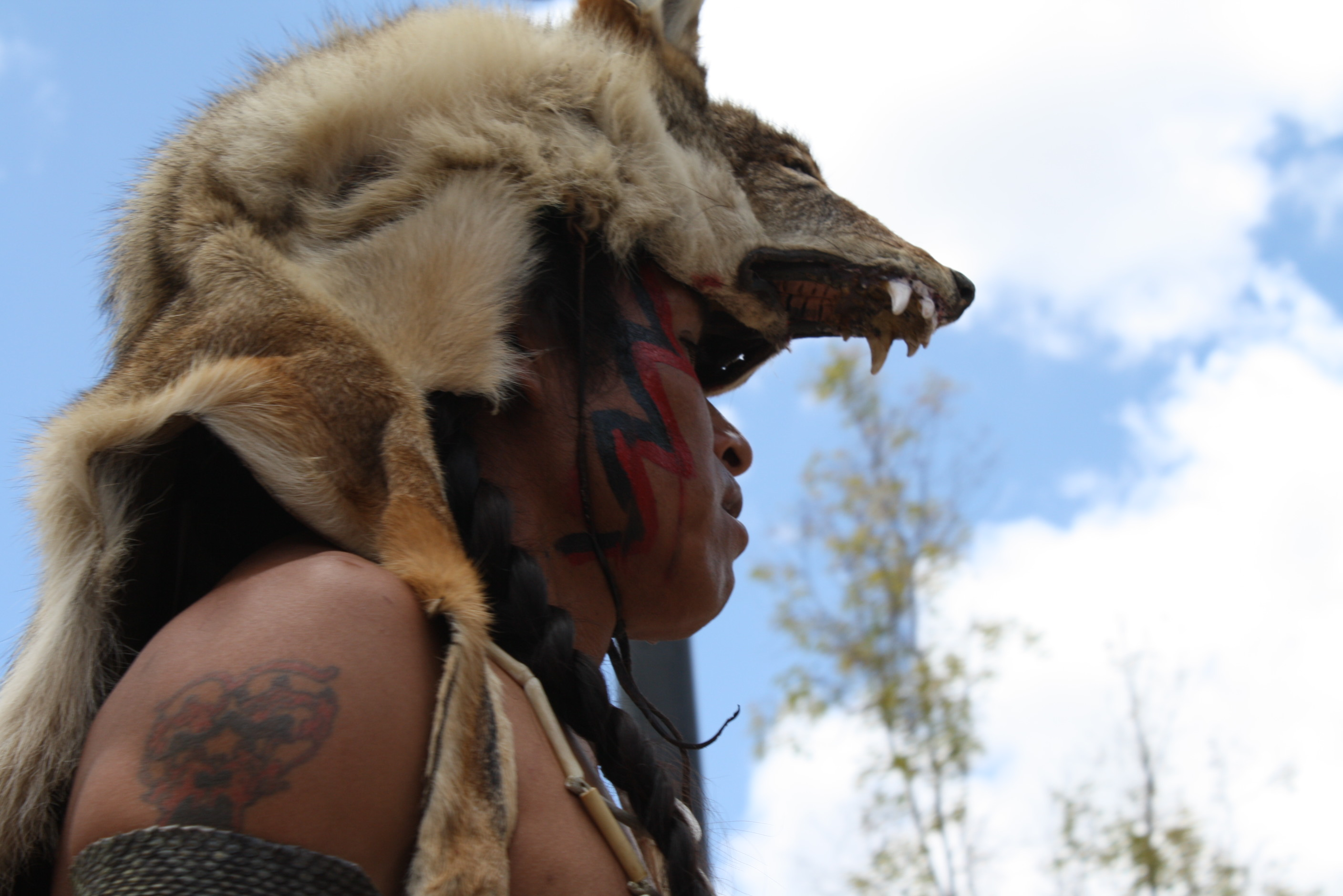 Member of W:Chichimeca Jonaz tribe at an Indigenous cultural festival in Mineral de Pozos, W:Guanajuato, Mexico